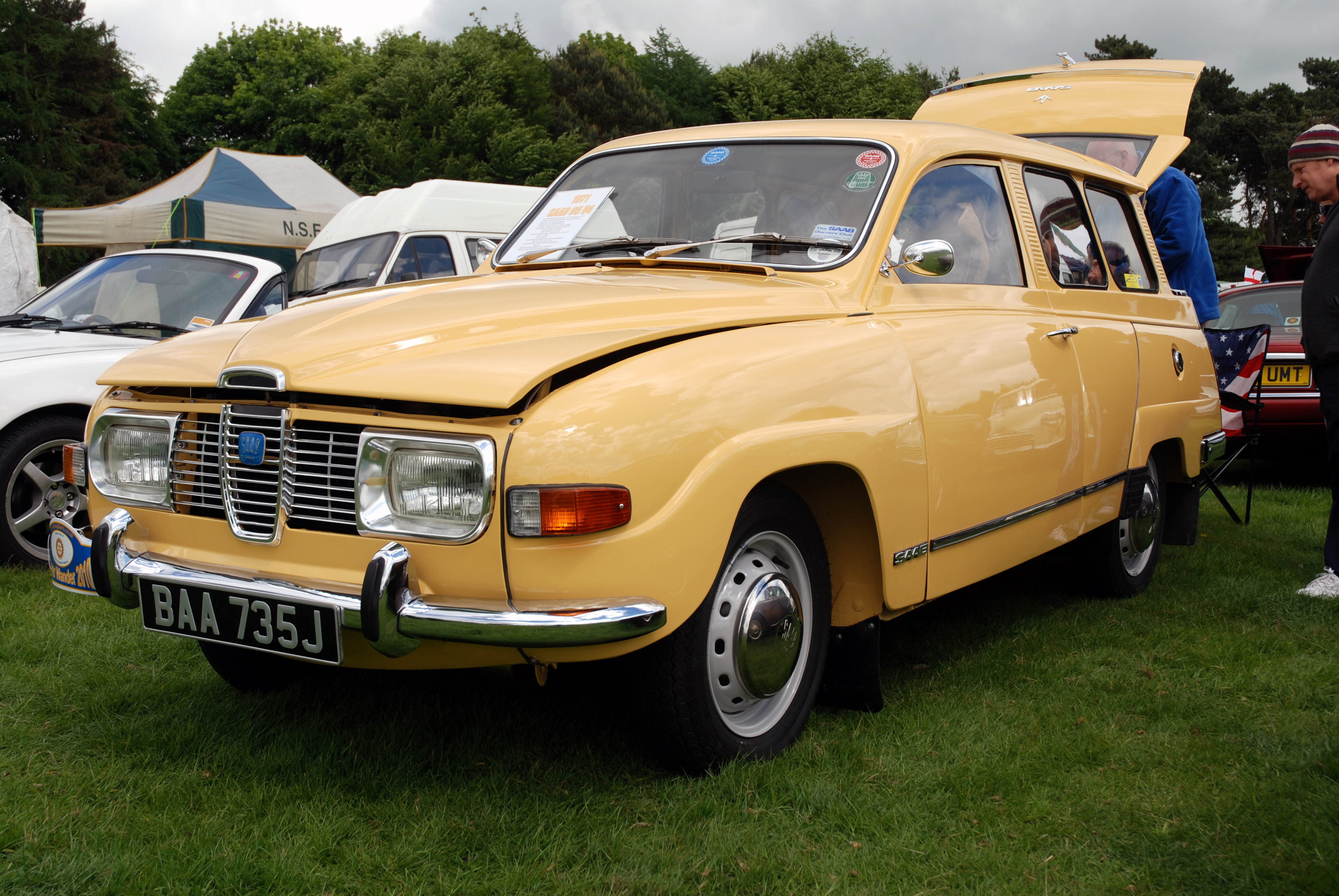 Capesthorne Hall,May 2010